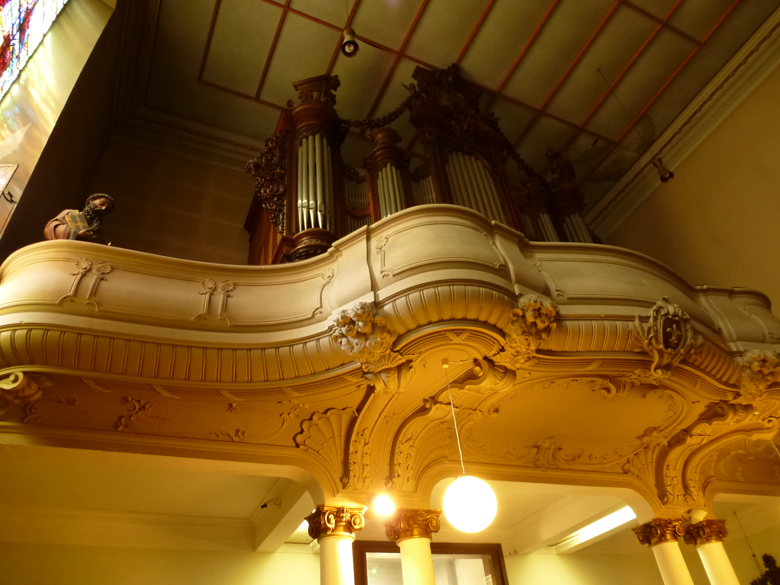 Pipe organ of St Louis Church in Strasbourg-Finkwiller (not to be confused with St Louis Church in Strasbourg-Robertsau), Alsace, France